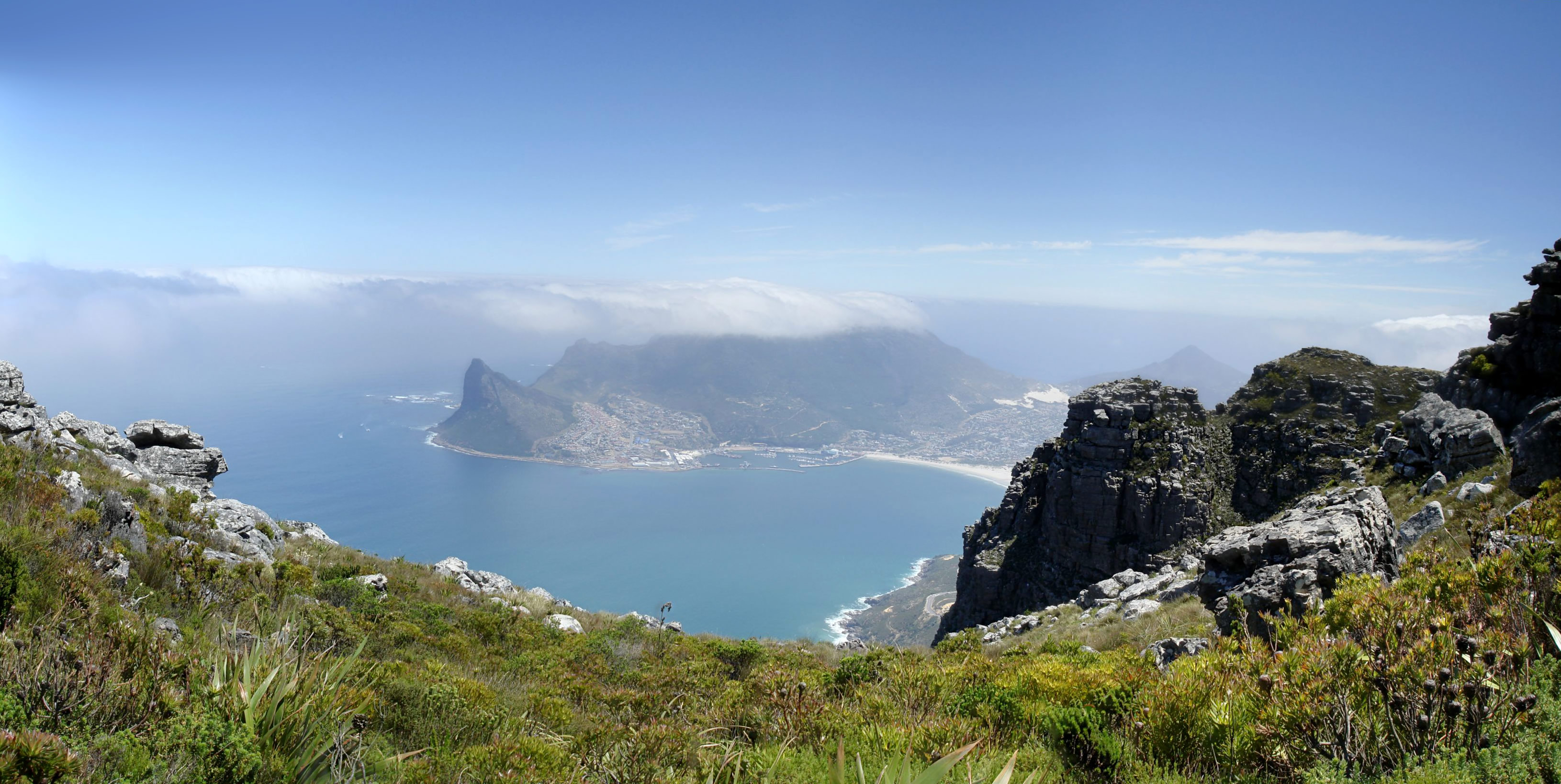 Mini-panorama, shot quickly between gaps in the mist, looking down on Chapman's Peak and Hout Bay.